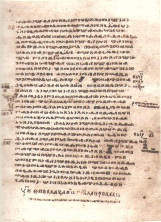 Maria's gospel written in glagolitic letters